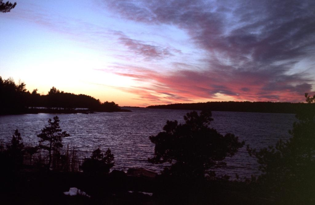 KORPO Långholm. Evening in Finnish archiplego.